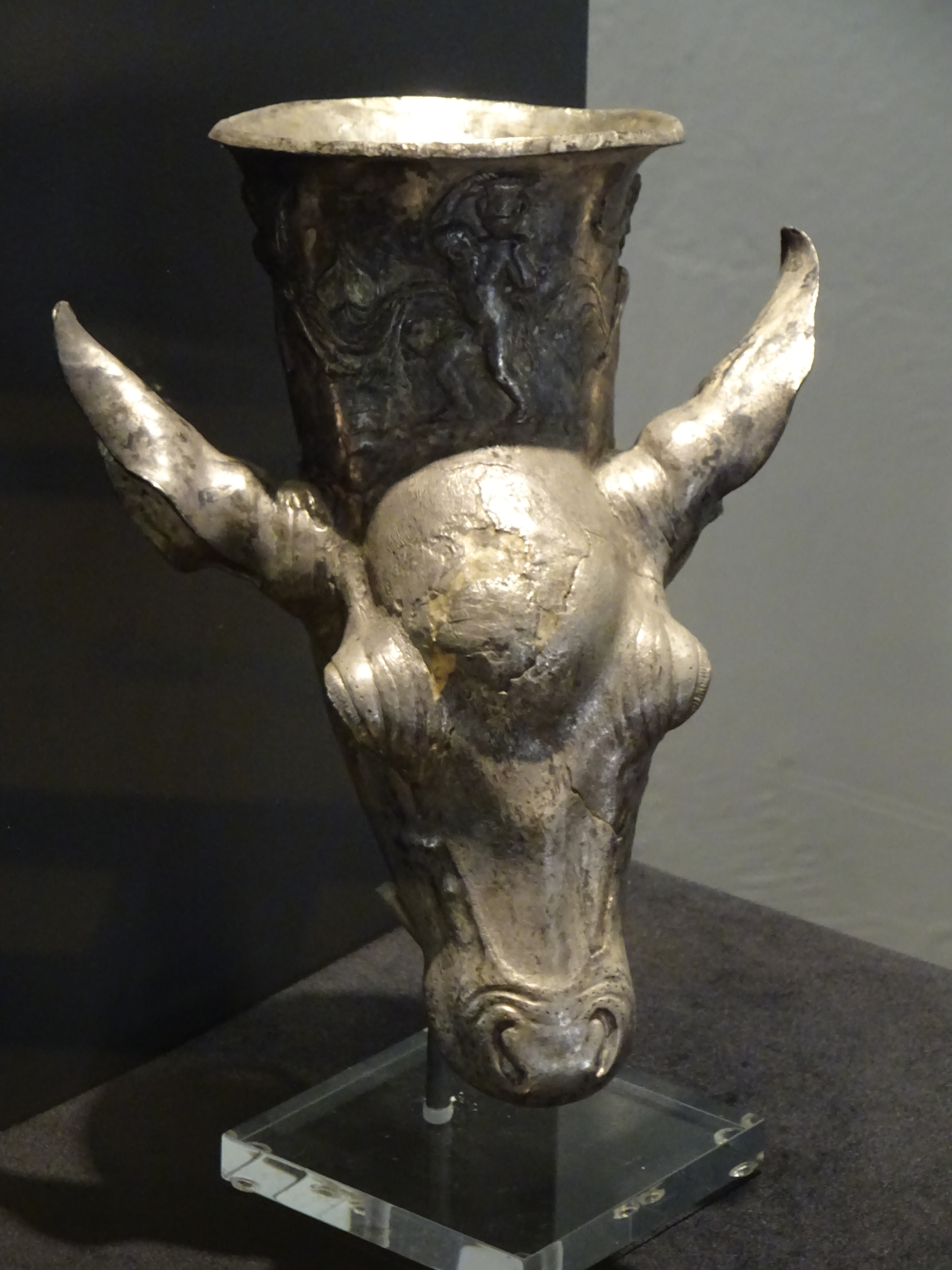 Rhyton. Silver. Yujna Mogila, Rozovets, Plovdiv region. 4th Century BC